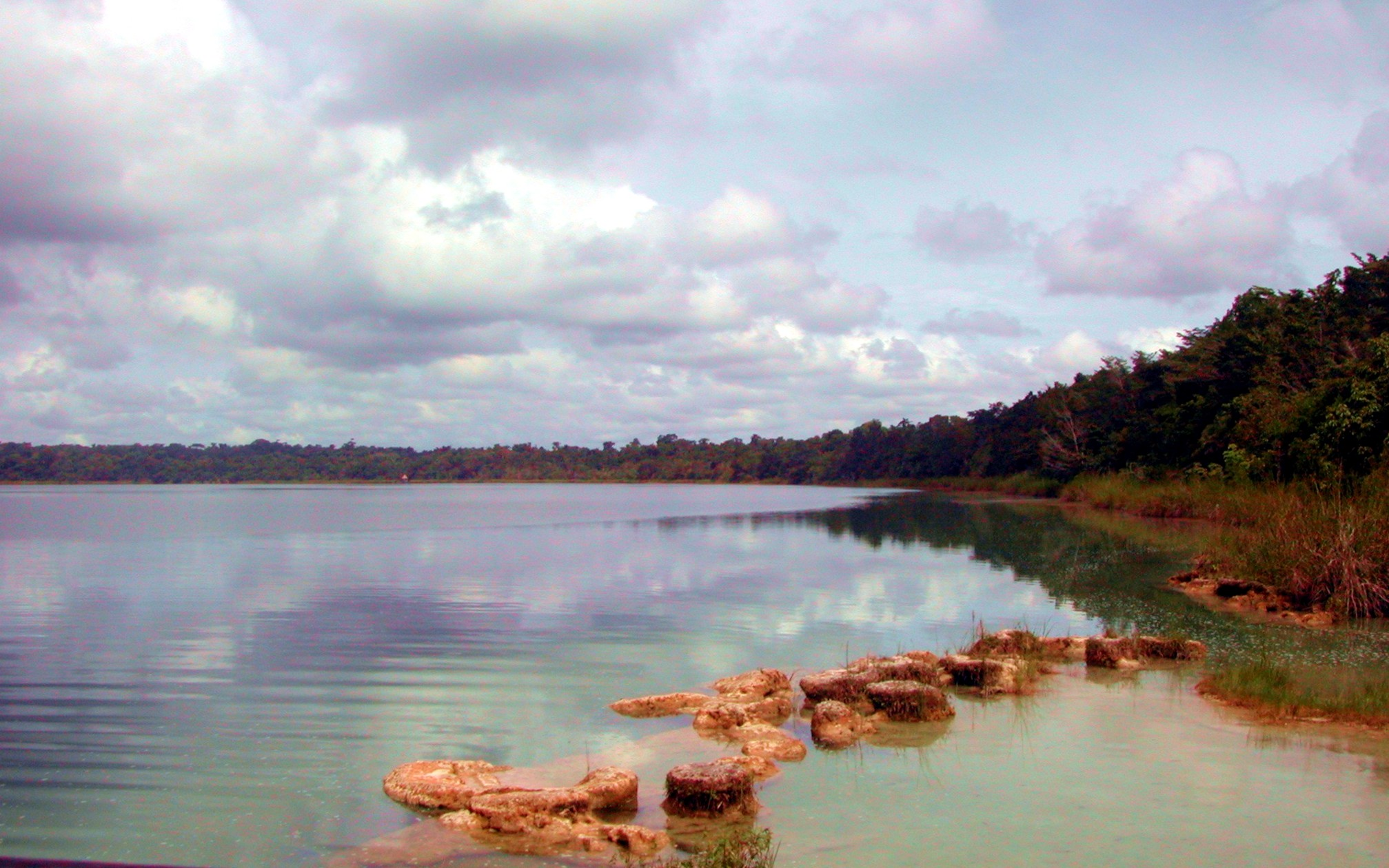 View of Lachuà lake Street,Alta Verapaz,Guatemala